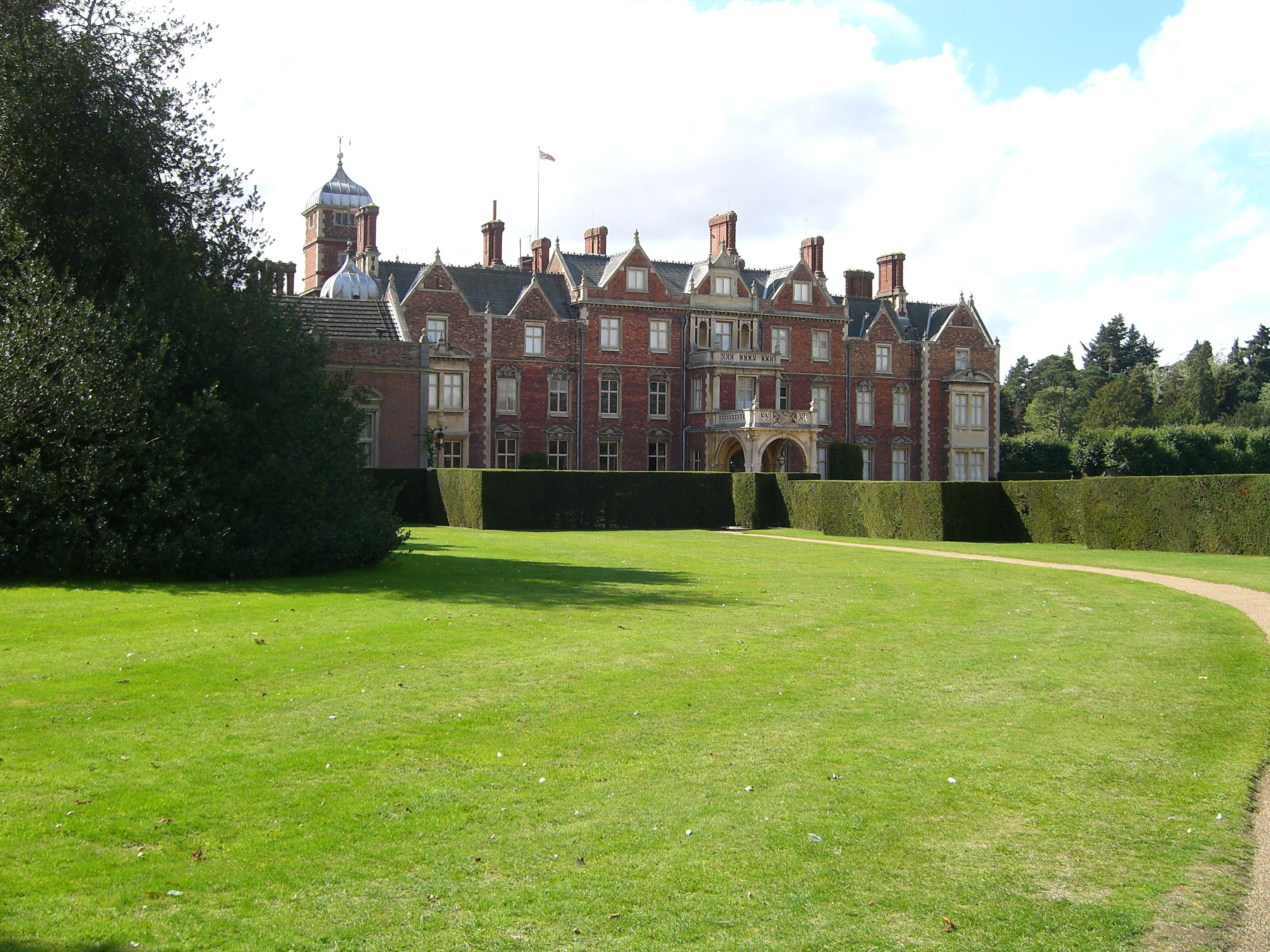 Sandringham House